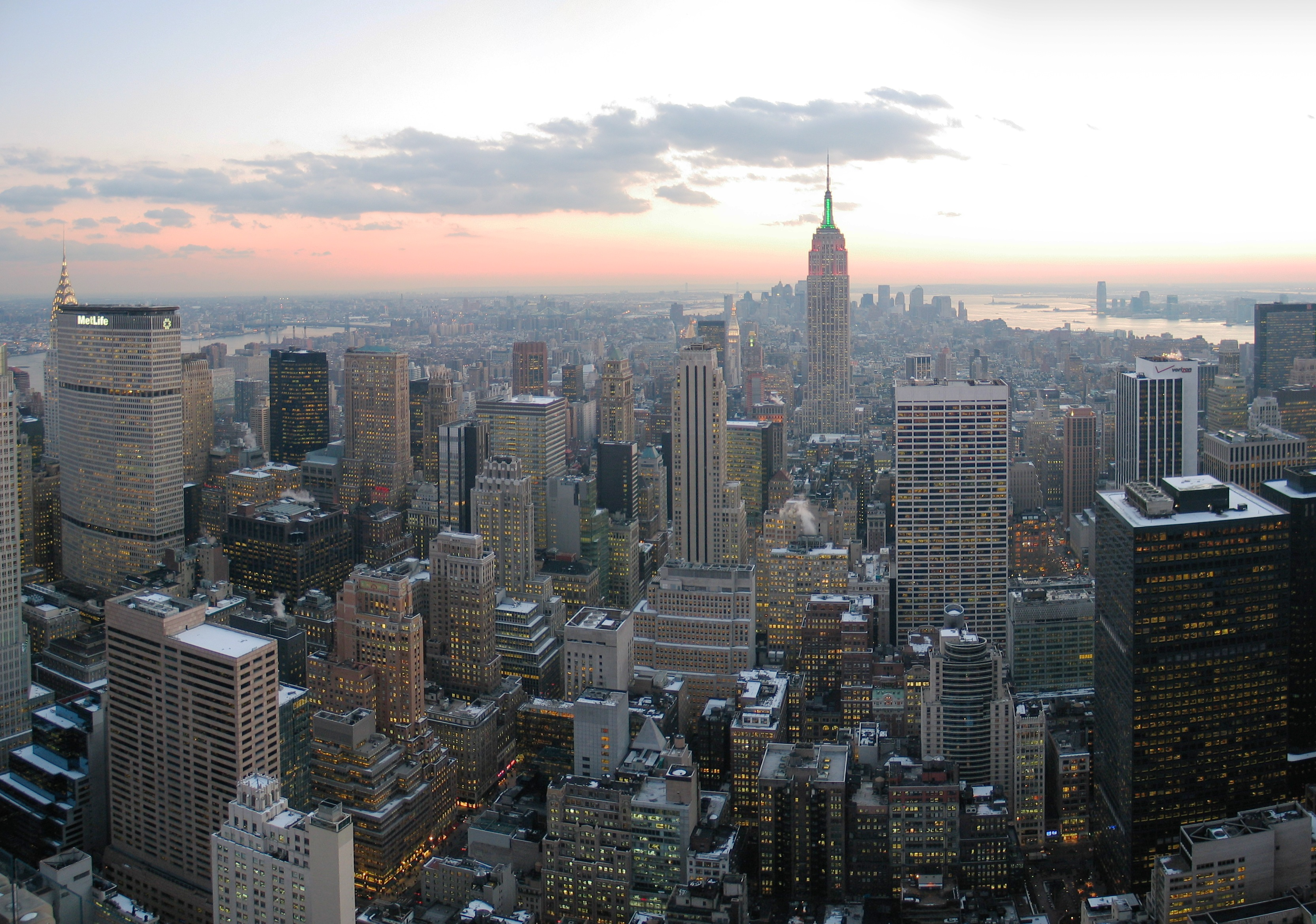 Looking south from Top of the Rock, New York City This image was created with Hugin.